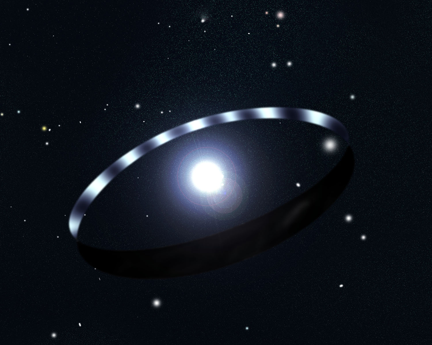 Sketch of Larry Niven's "Ringworld"